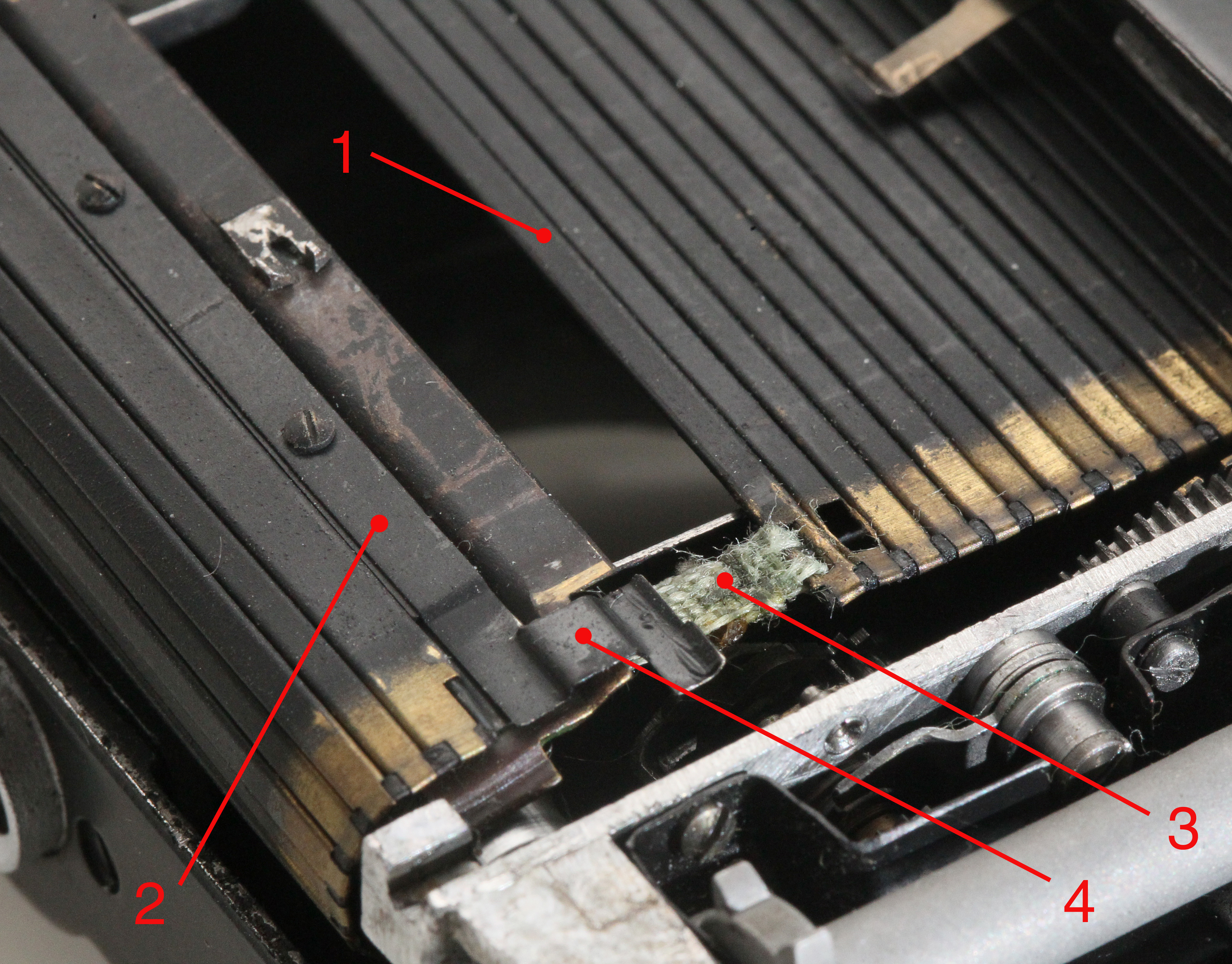 Contax-type focal-plane shutter of 'Kiev-4a' camera. 1 - upper (first) curtain; 2 - lower (second) curtain; 3 - webbing; 4 - curtain lock.